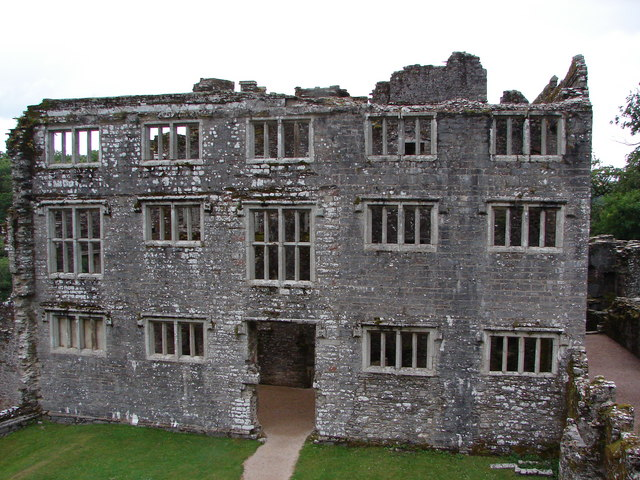 Berry Pomeroy Castle - Ruined interior